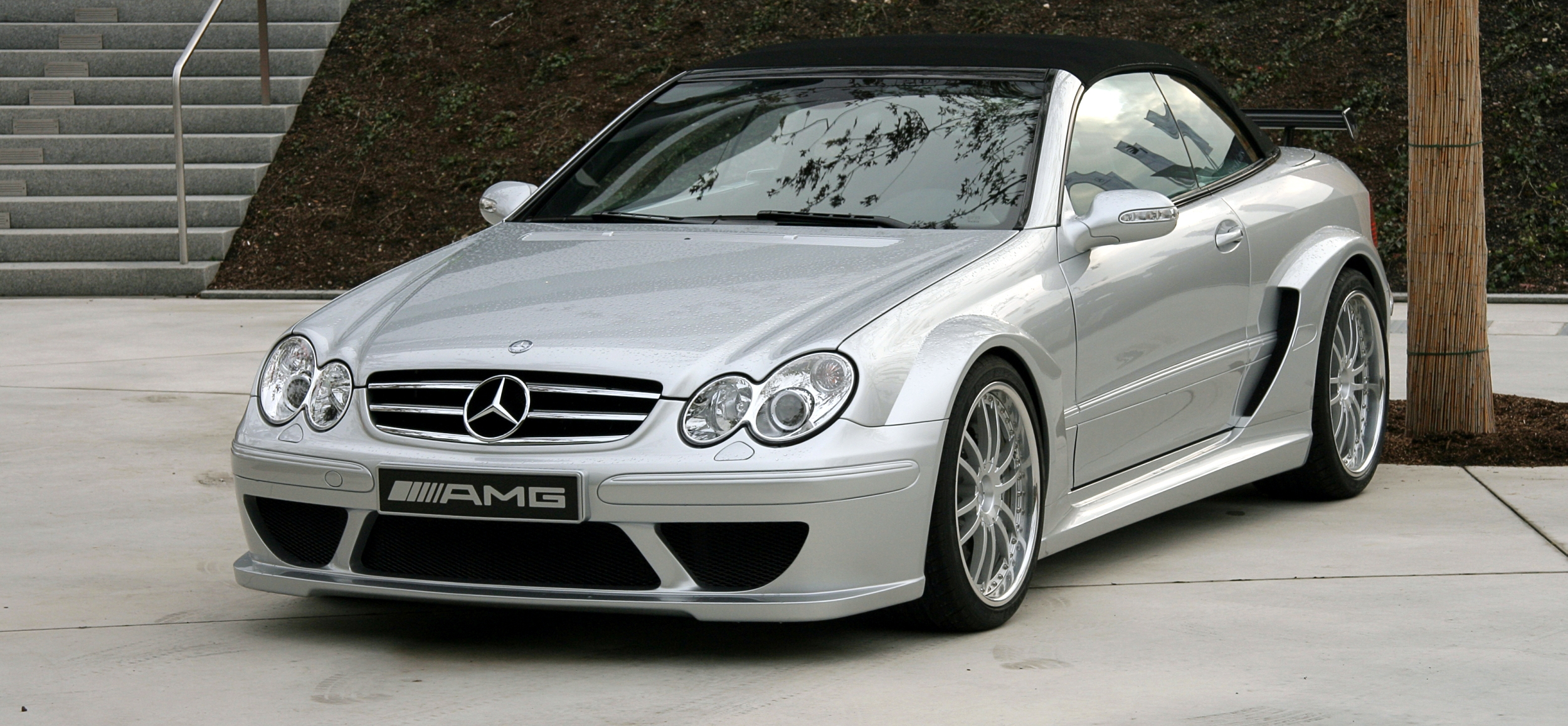 Mercedes CLK DTM (C209)